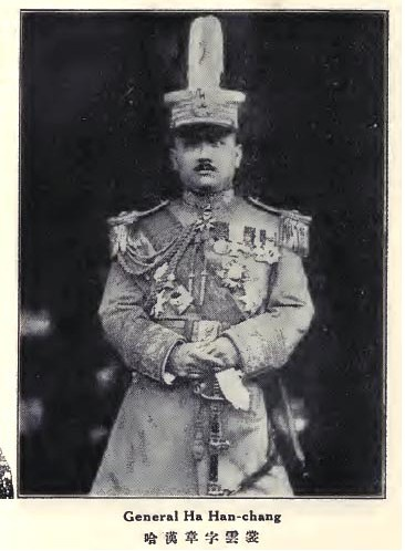 Ha Hanzhang (1879-1953)